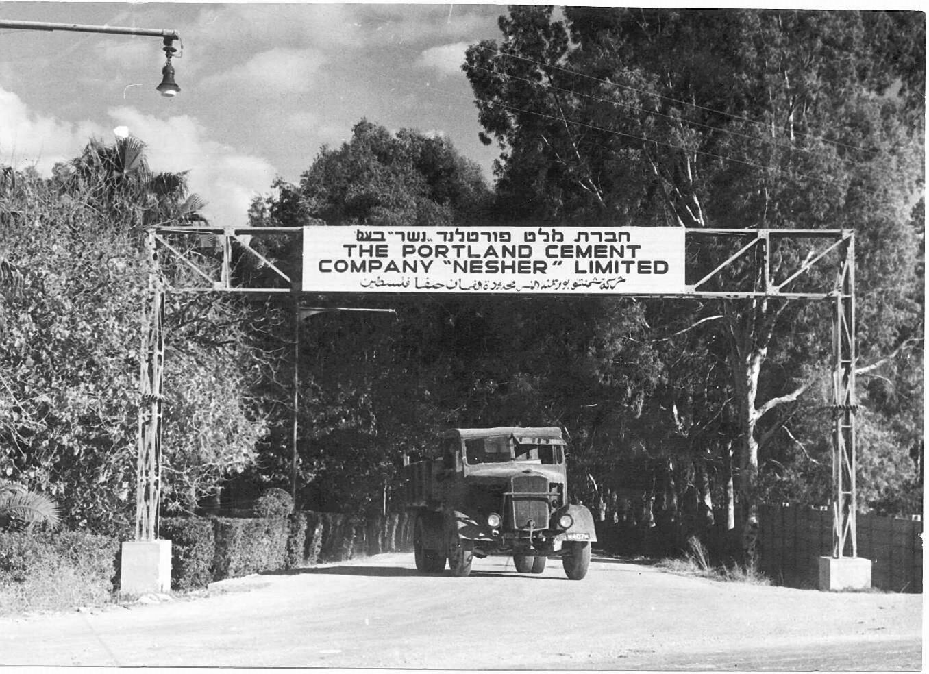 Nesher Malt Factory near Haifa.